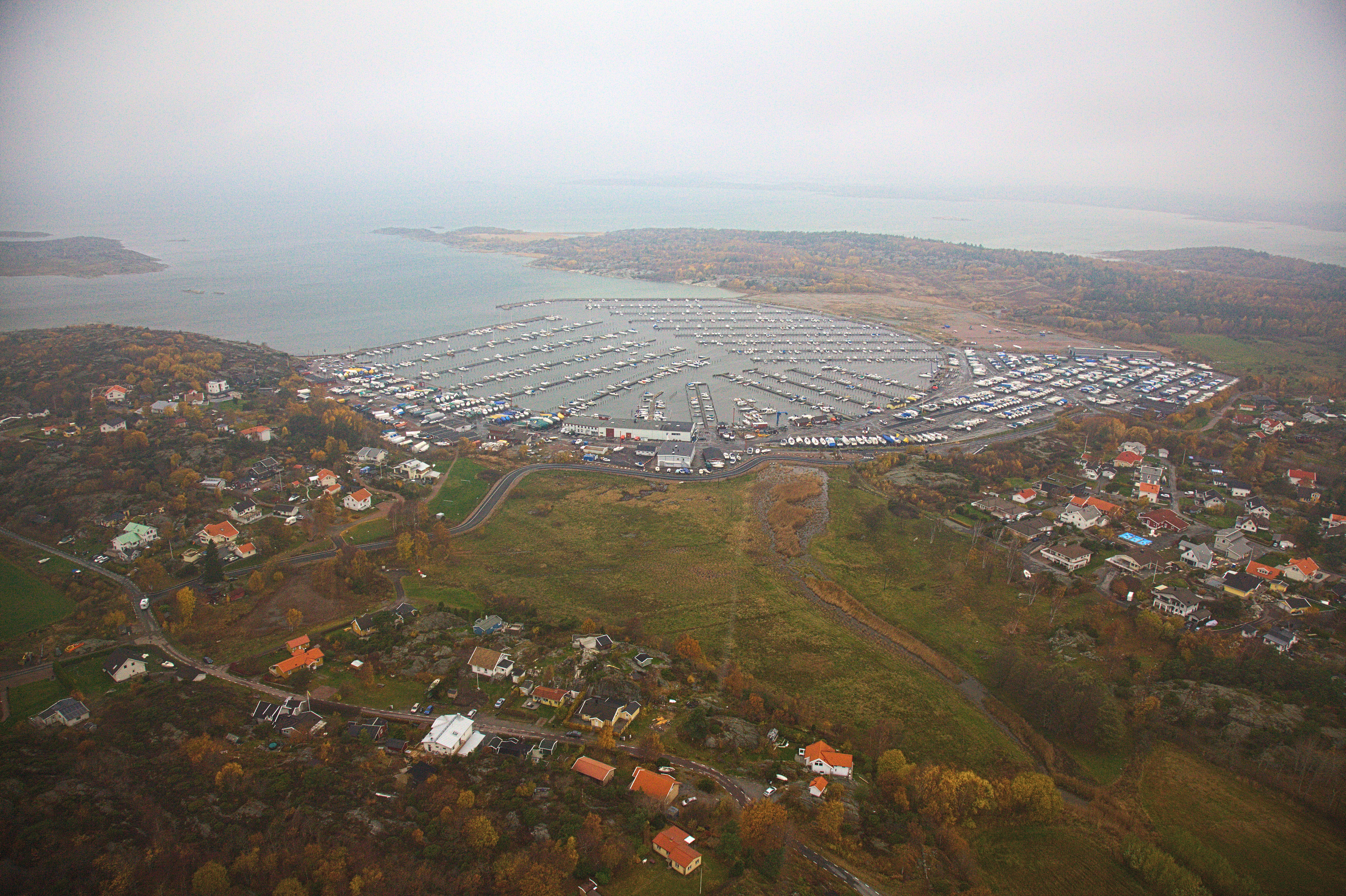 Photo taken on at helicopter over Gothenburg This aerial photograph has been approved for publishing by the Swedish Armed Forces with the ID: 10830:80662 This tag does not indicate the copyright status of the attached work. A normal copyright tag is still required. See Commons:Licensing.